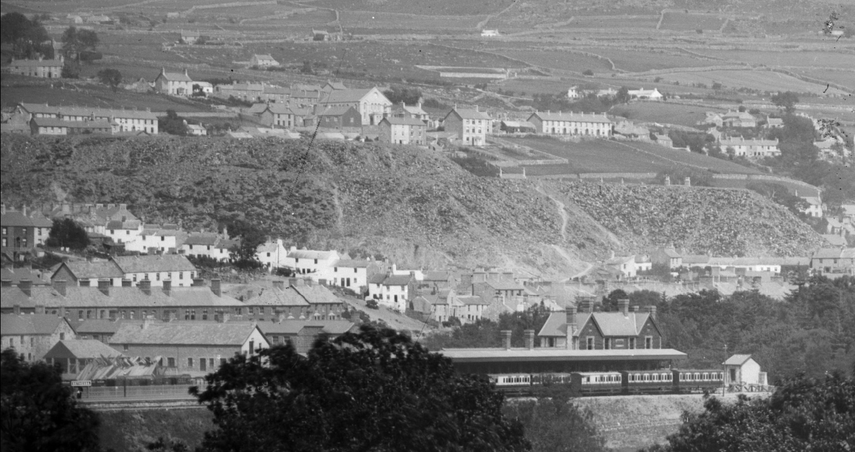 Bethesda railway station (LNWR) in 1885. Behind are the waste tips of Pantdreiniog quarry and the areas of Bryntirion and Carneddau in the town of Bethesda. Taken around 1885.